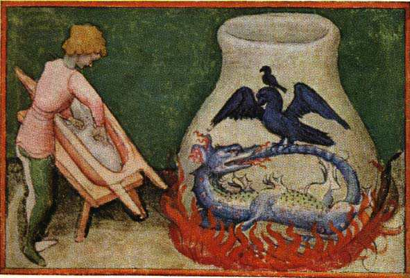 Aurora and dragon